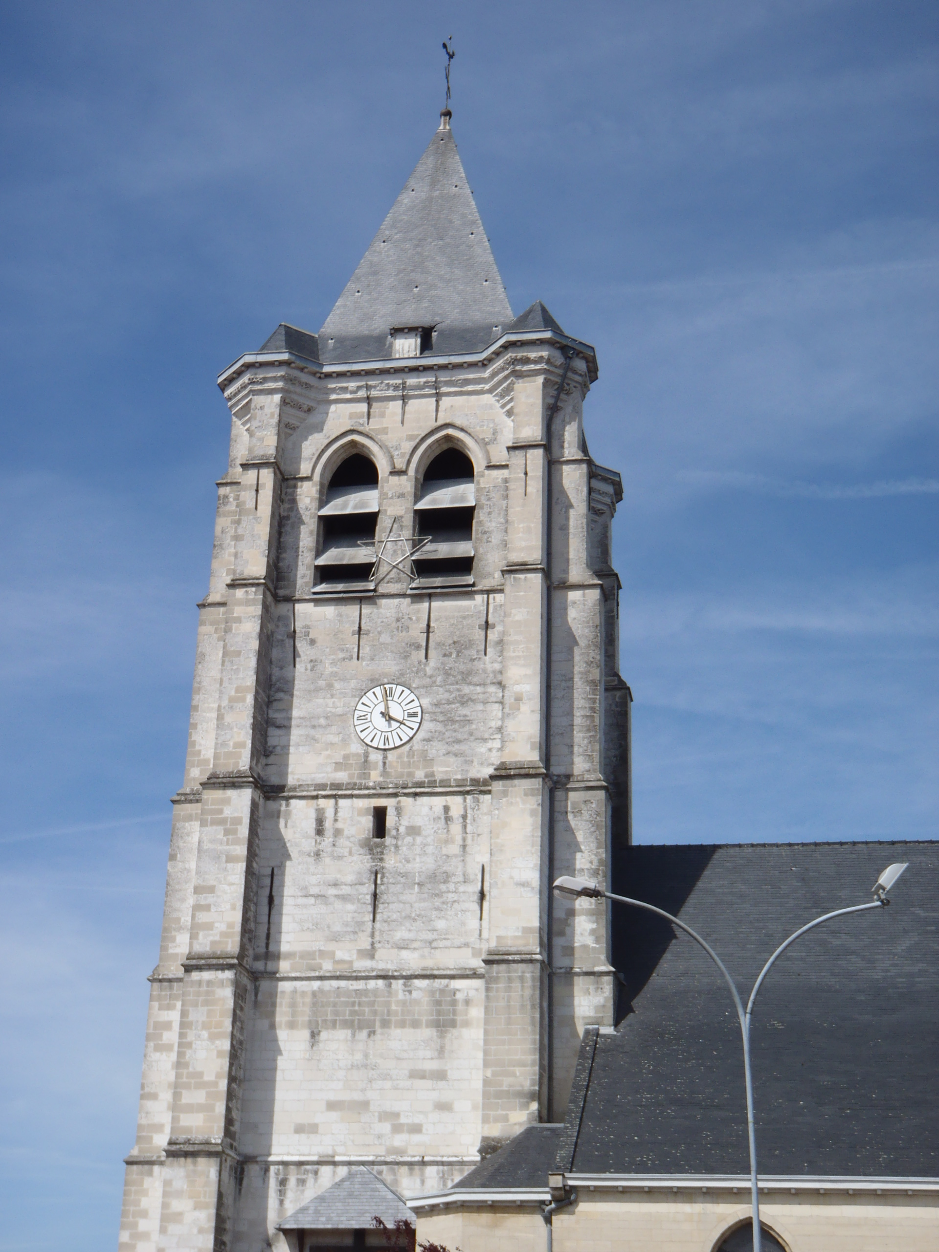 Saint Nicolas Church at Sainghin-en-Mélantois